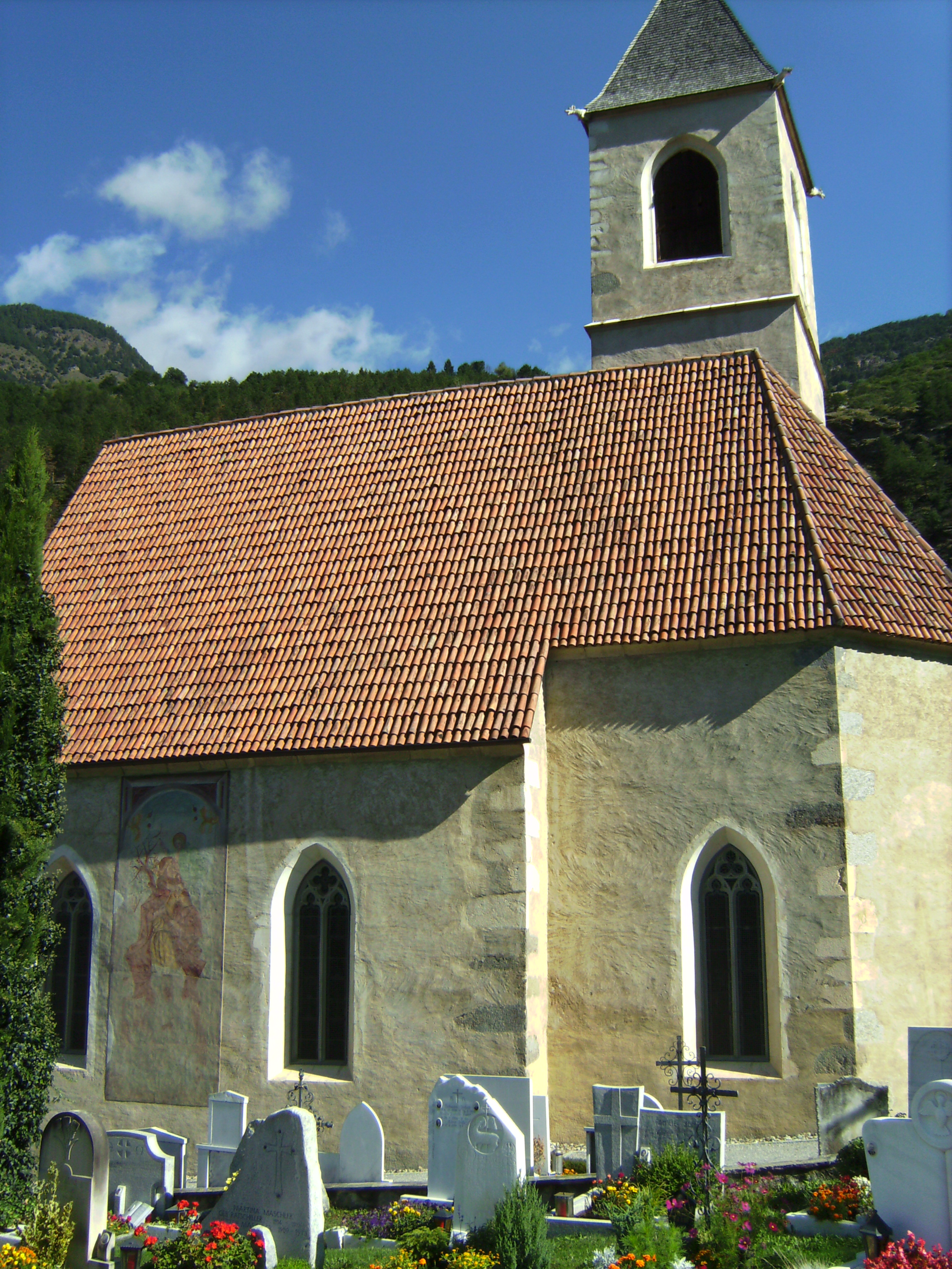 Church of Saint Luzius in Tiss, South Tyrol